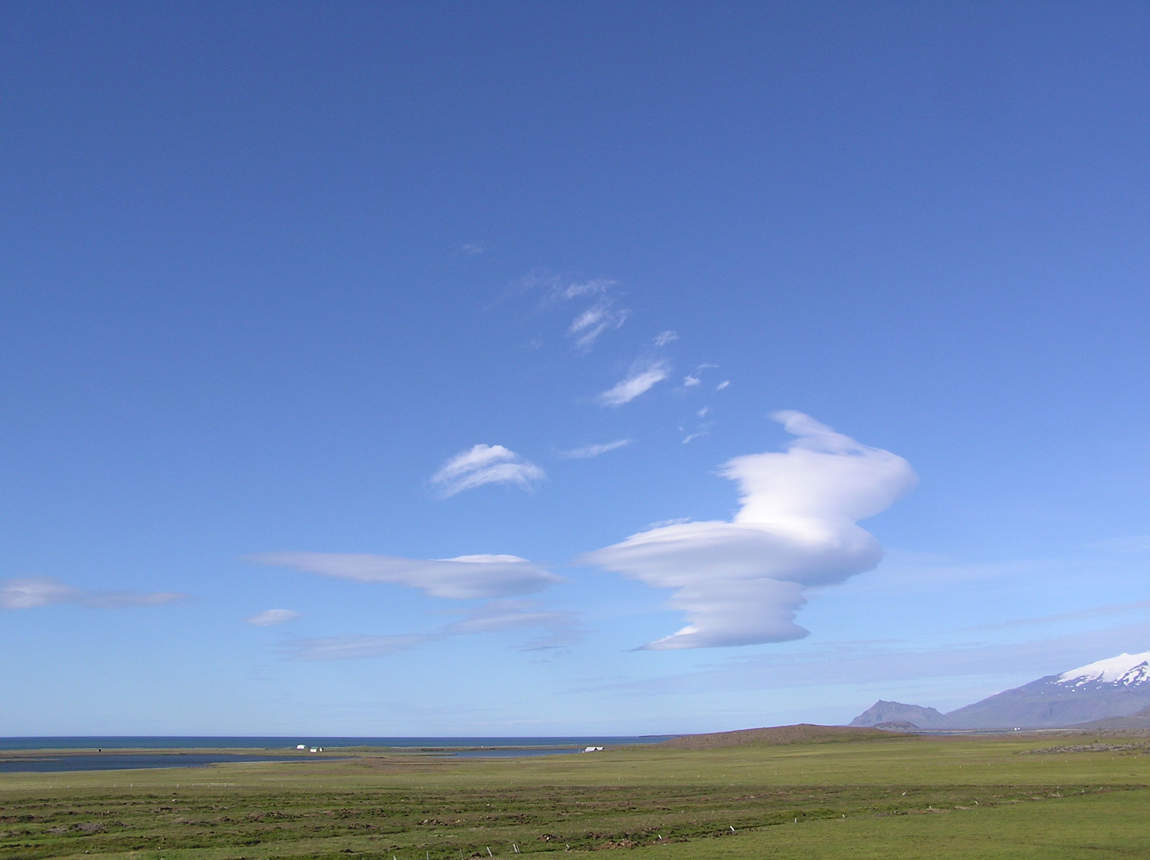 Picture of the Snæfellsjökull, a 1446m high vulcan on Island. On this picture i can perfectly see the wave produced because of the strong winds on that day. Primary, secondary and tertiary wave is also visible.